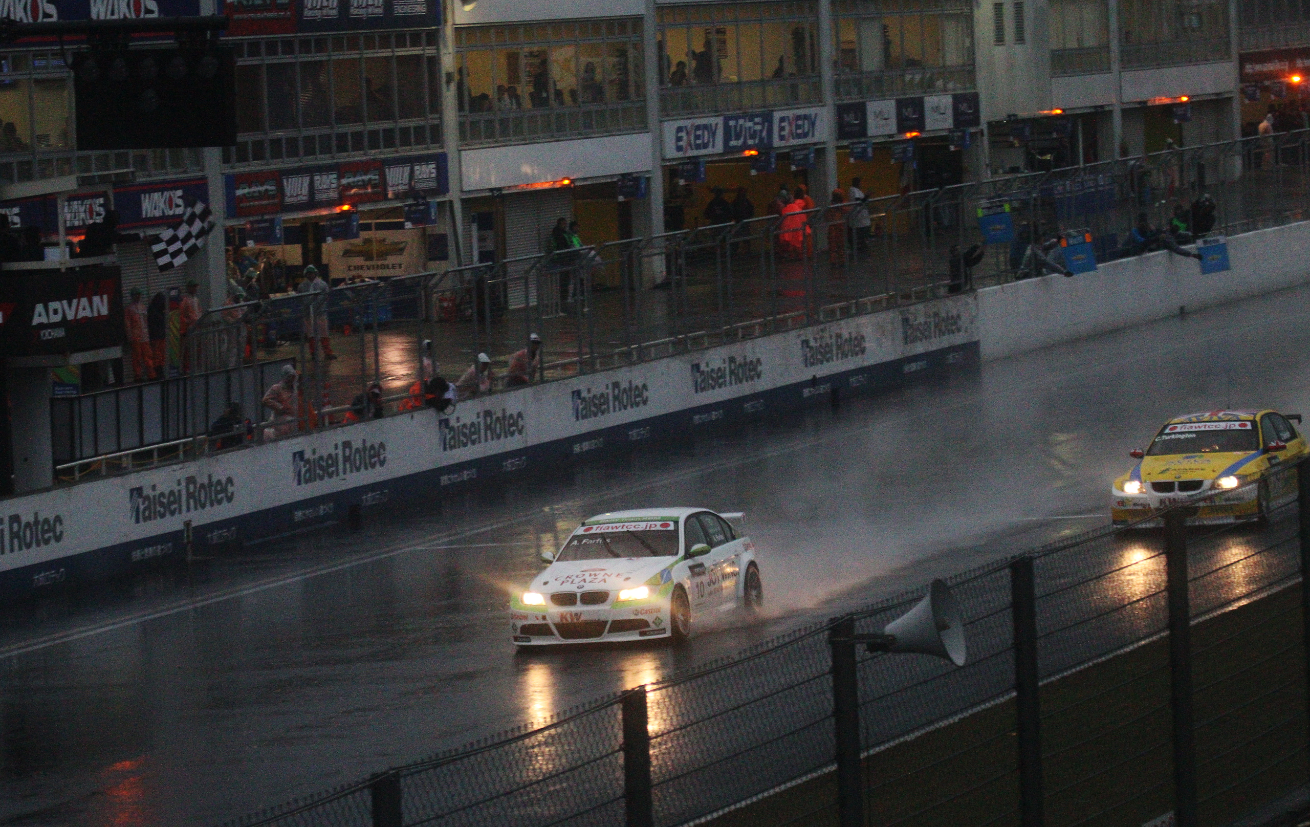 World Touring Car Championship 2010 Race of Japan: Augusto Farfus (BMW Team RBMy) won Race 2.